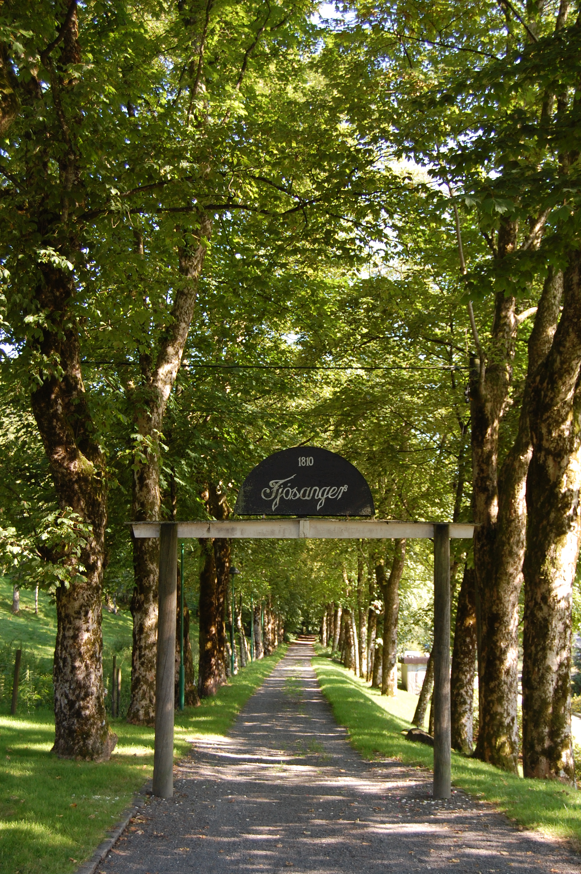 Fjøsanger hovedgård